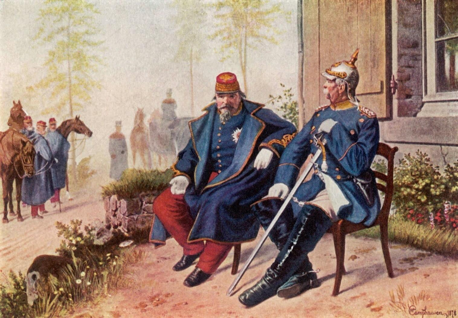 Otto von Bismarck and Napoleon III after the Battle of Sedan in 1870.